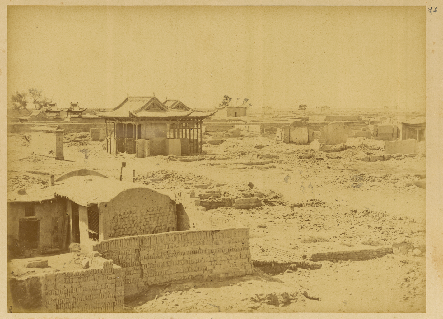 In 1874-75, the Russian government sent a research and trading mission to China to seek out new overland routes to the Chinese market, report on prospects for increased commerce and locations for consulates and factories, and gather information about the Dungan Revolt then raging in parts of western China. Led by Lieutenant Colonel Iulian A. Sosnovskii of the army General Staff, the nine-man mission included a topographer, Captain Matusovskii; a scientific officer, Dr. Pavel Iakovlevich Piasetskii; Chinese and Russian interpreters; three non-commissioned Cossack soldiers; and the mission photographer, Adolf Erazmovich Boiarskii. The mission proceeded from Saint Petersburg to Shanghai via Ulan Bator (Mongolia), Beijing, and Tianjin, and then followed a route along the Yangtze River, along the Great Silk Road through the Hami oasis, to Lake Zaysan, back to Russia. Boiarskii took some 200 photographs, which constitute a unique resource for the study of China in this period. Most of the photographs are included in this album, which later became part of the Thereza Christina Maria Collection assembled by Emperor Pedro II of Brazil and given by him to the National Library of Brazil. Buildings; Cities and towns; Memory of the World; Ruins